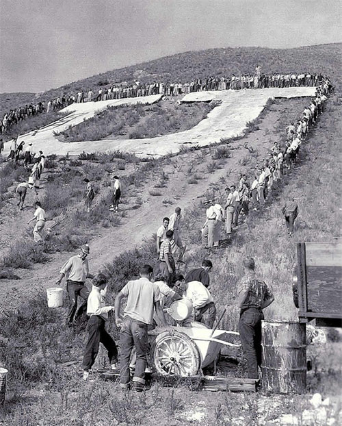 The image was taken from a from a Government website and is in the public domain.